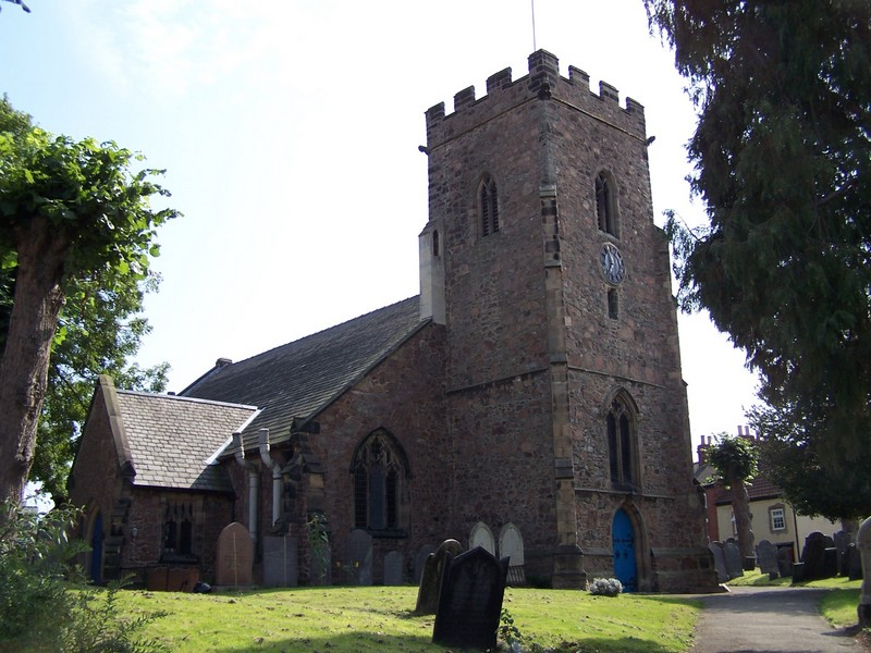 St Michael and All Angels parish church, Melton Road, Thurmaston, Leicestershire